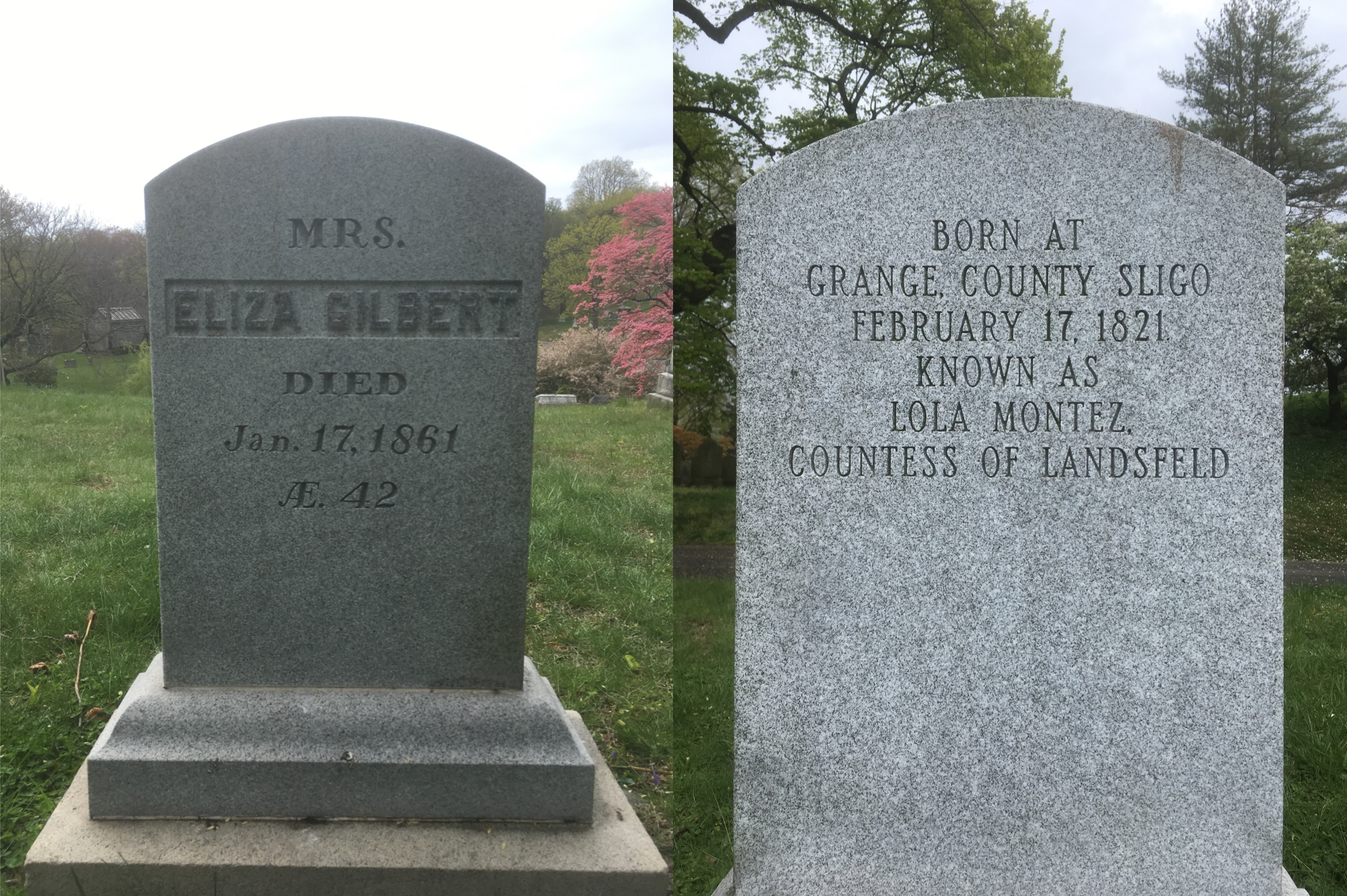 Both sides of the gravestone of Lola Montez, buried in Green-Wood Cemetery, Brooklyn, New York.